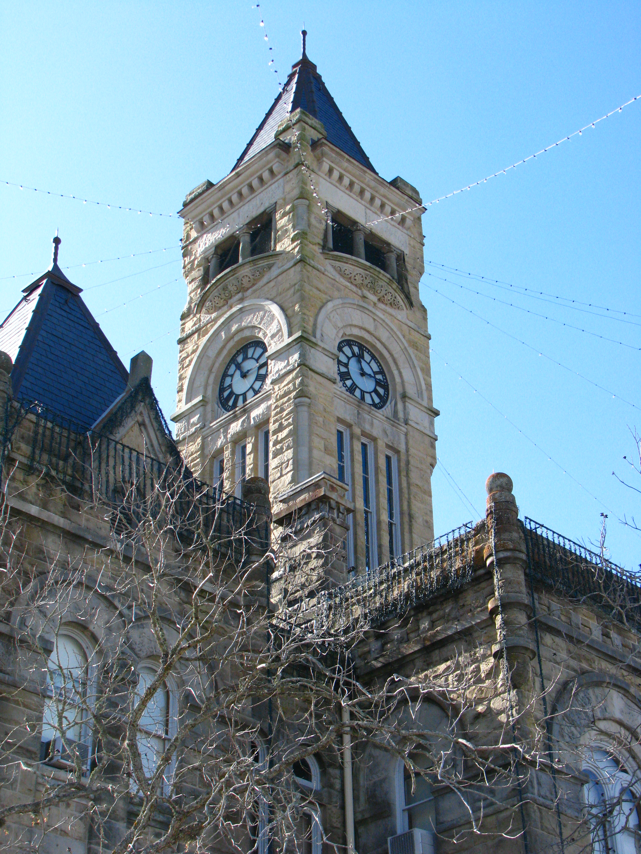 Lavaca County court house, Hallettsville, TX